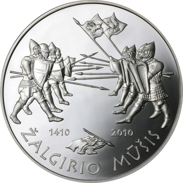 Denomination 50 litas Silver Ag 925 Diameter 38.61 mm Weight 28.28 g Quality proof Mintage 10,000 pieces